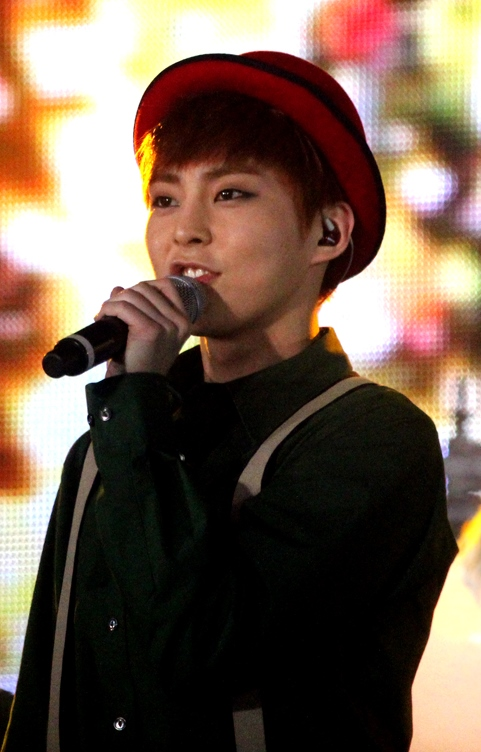 Xiumin at the SMTown Week on December 24, 2013.